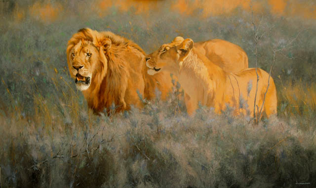 Lion painting by Internationally acclaimed artist Kim Donaldson